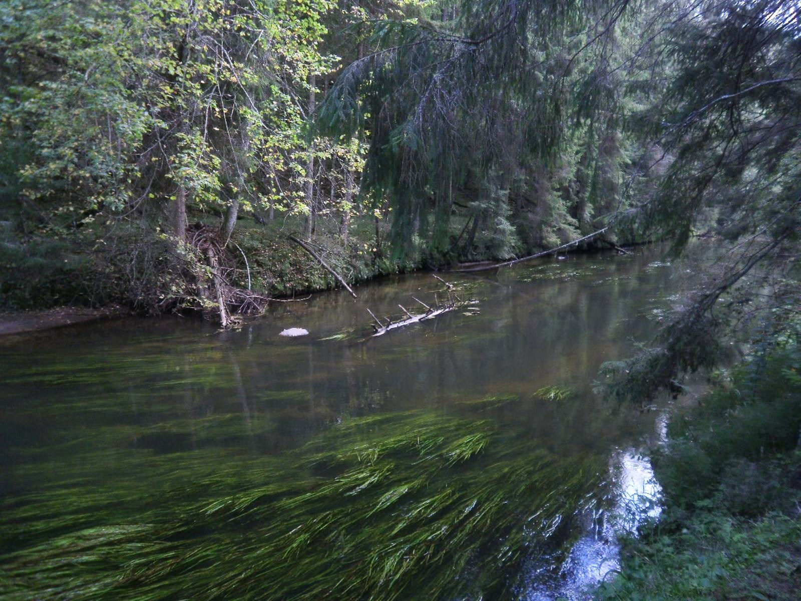 Ahja river, Valgemetsa, Põlvamaa, Estonia.